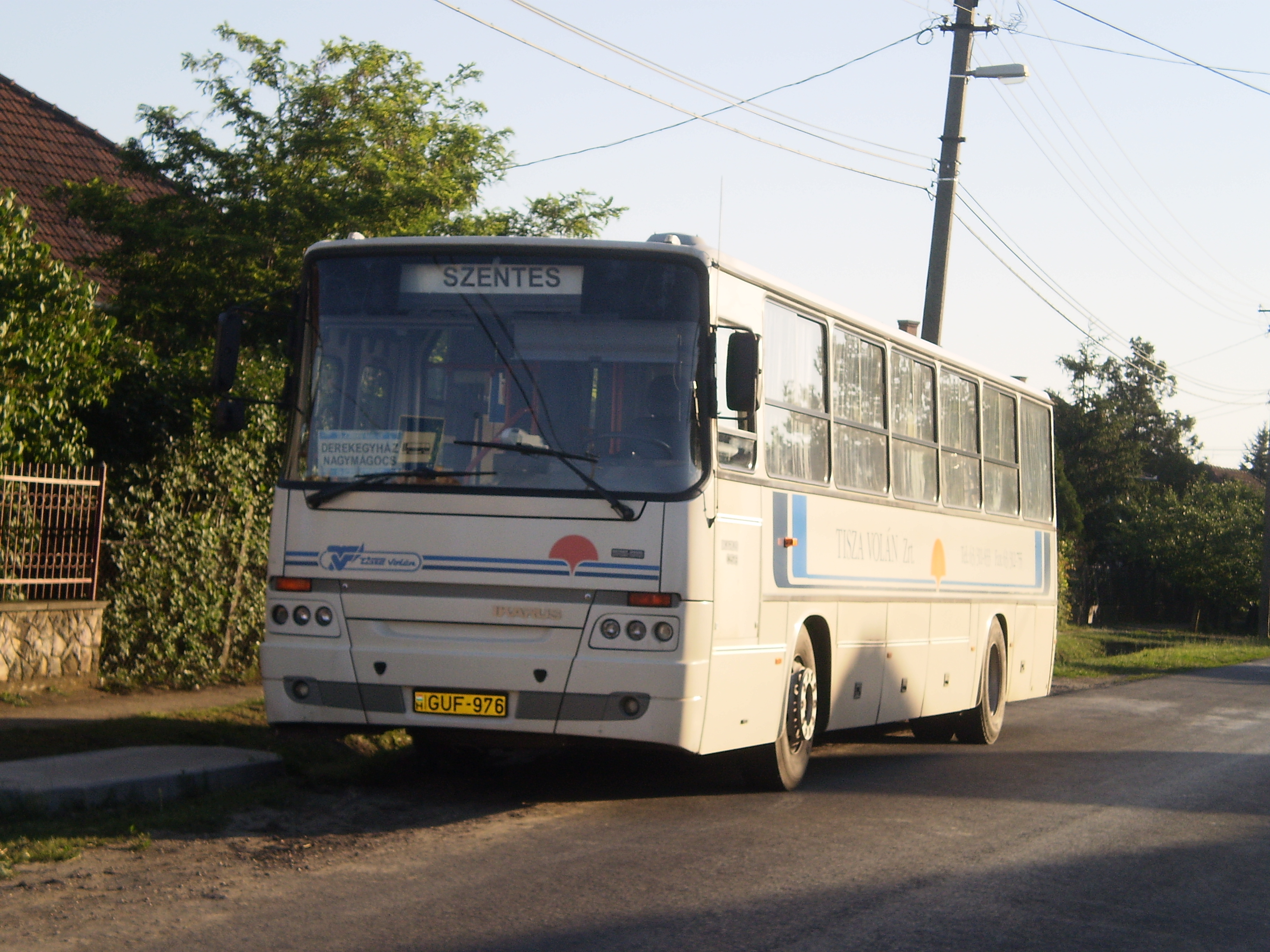 Tisza Volán Ikarus C56 bus, Nagymágocs, Hungary.